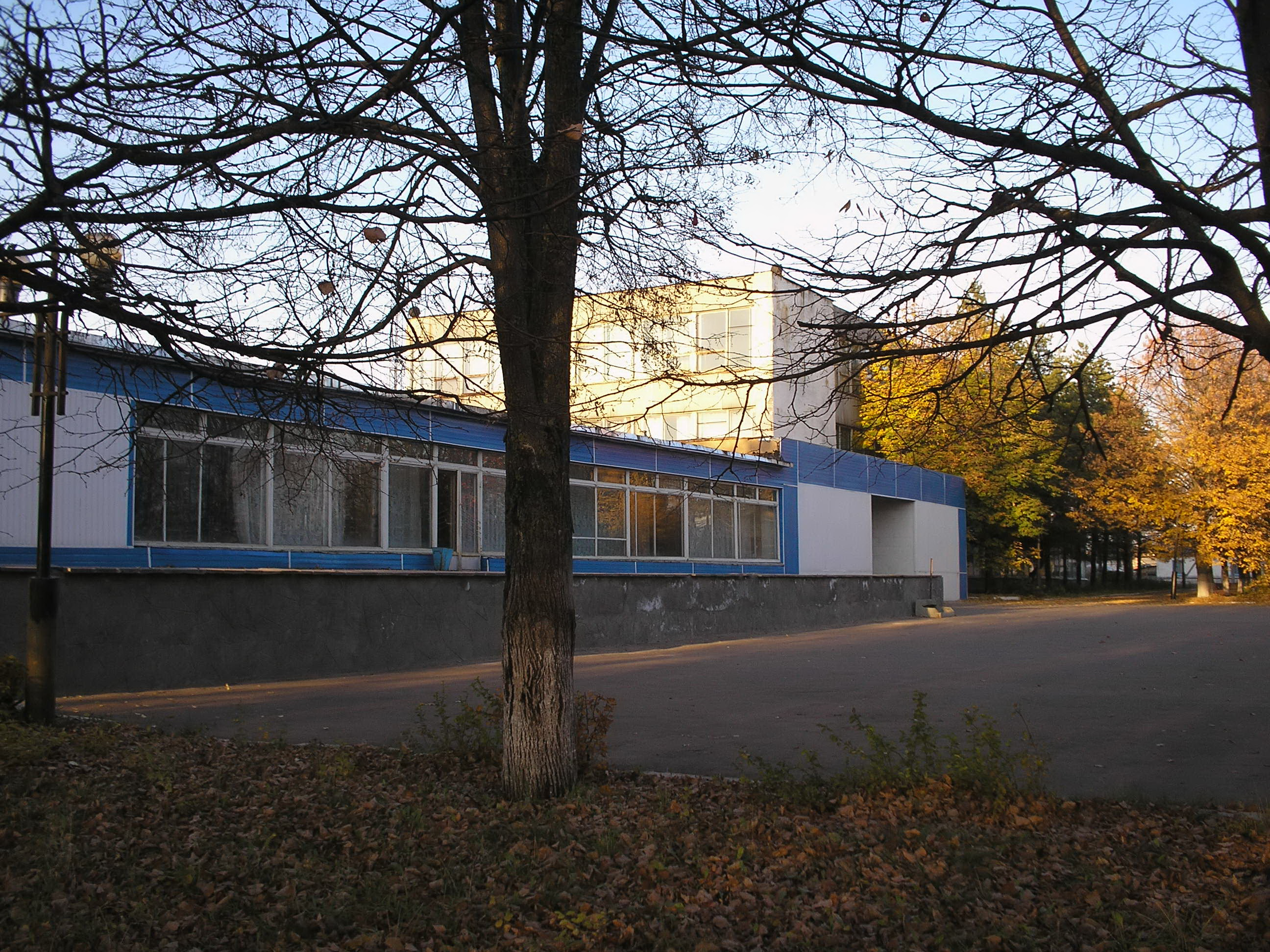 Rtishchevo. Plant "Argon"